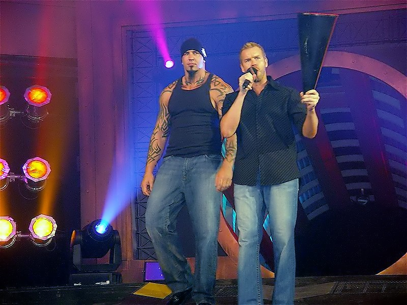 Christian Cage and Tomko at TNA Impact tapings Orlando Florida Photo by Rob Beukema